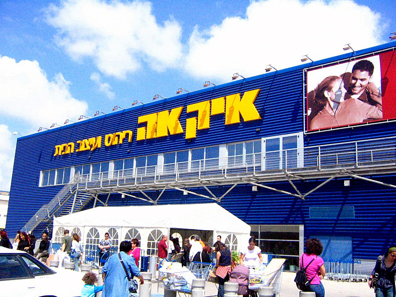 IKEA in Israel near Netanya. Note the Hebrew sign. The first word, איקאה (the furthest to the right) spells IKEA, followed by the words for "furniture" and "household goods."